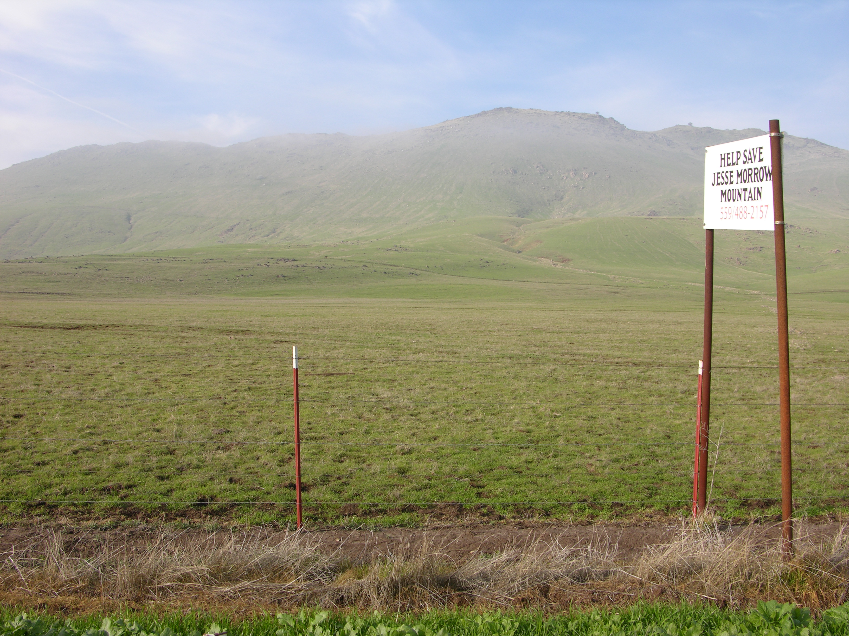 Image of Jesse Morrow Mountain in Fresno County, California. The location was the subject of a land dispute